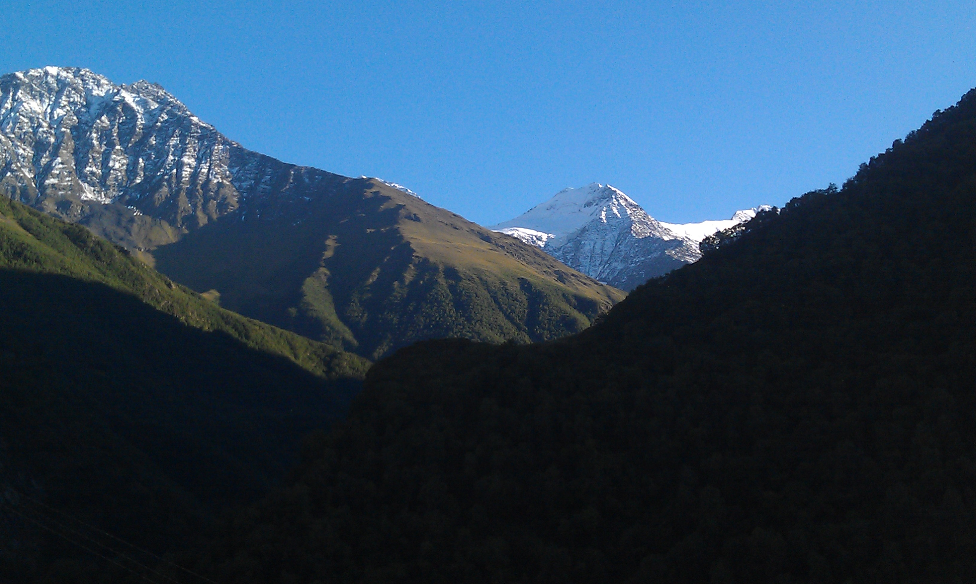 The mountains in the area Sharoi